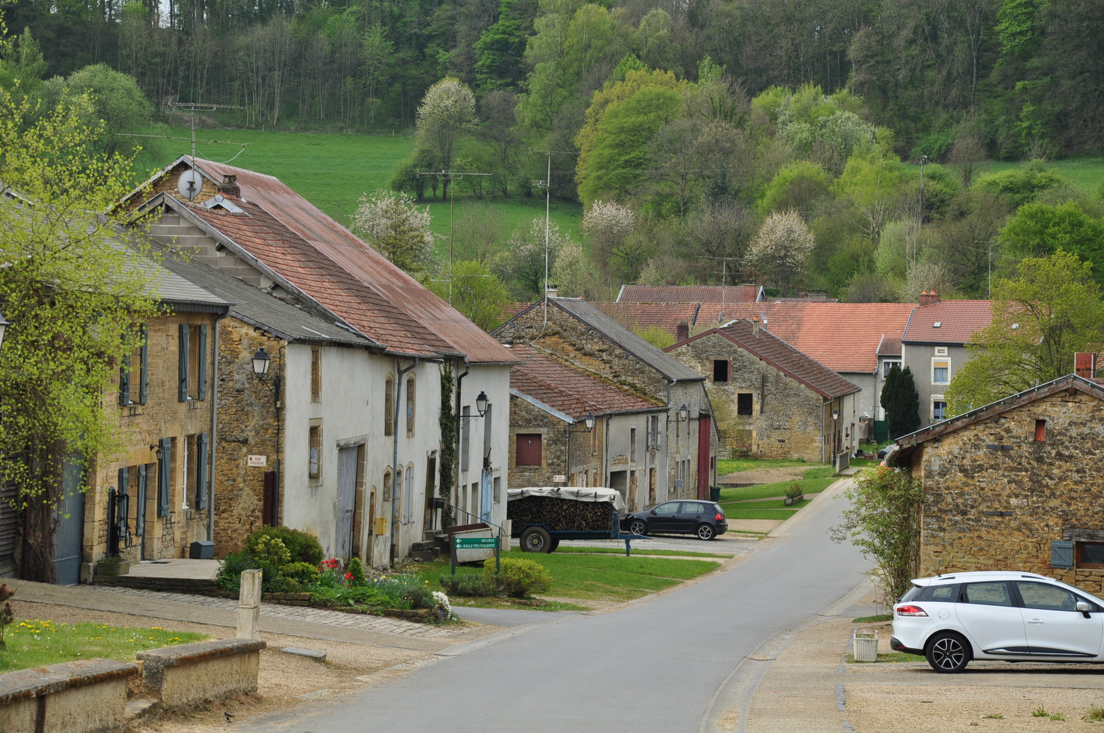 The Grande Rue (Big Street) in Auflance (Ardennes Department, Champagne-Ardenne region, France).